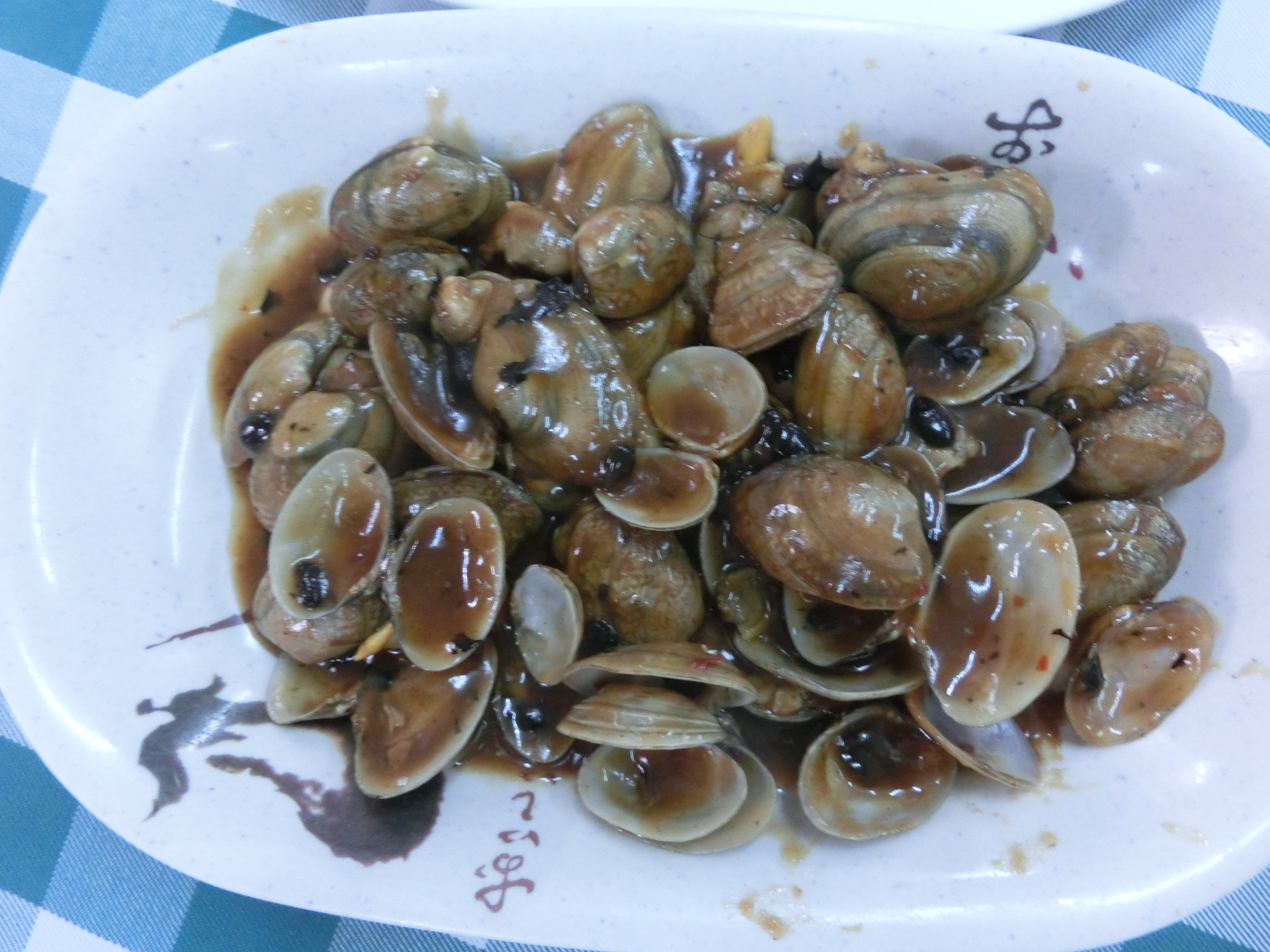 長洲, One of Seafood restaurants, Cheung Chau, Hong Kong